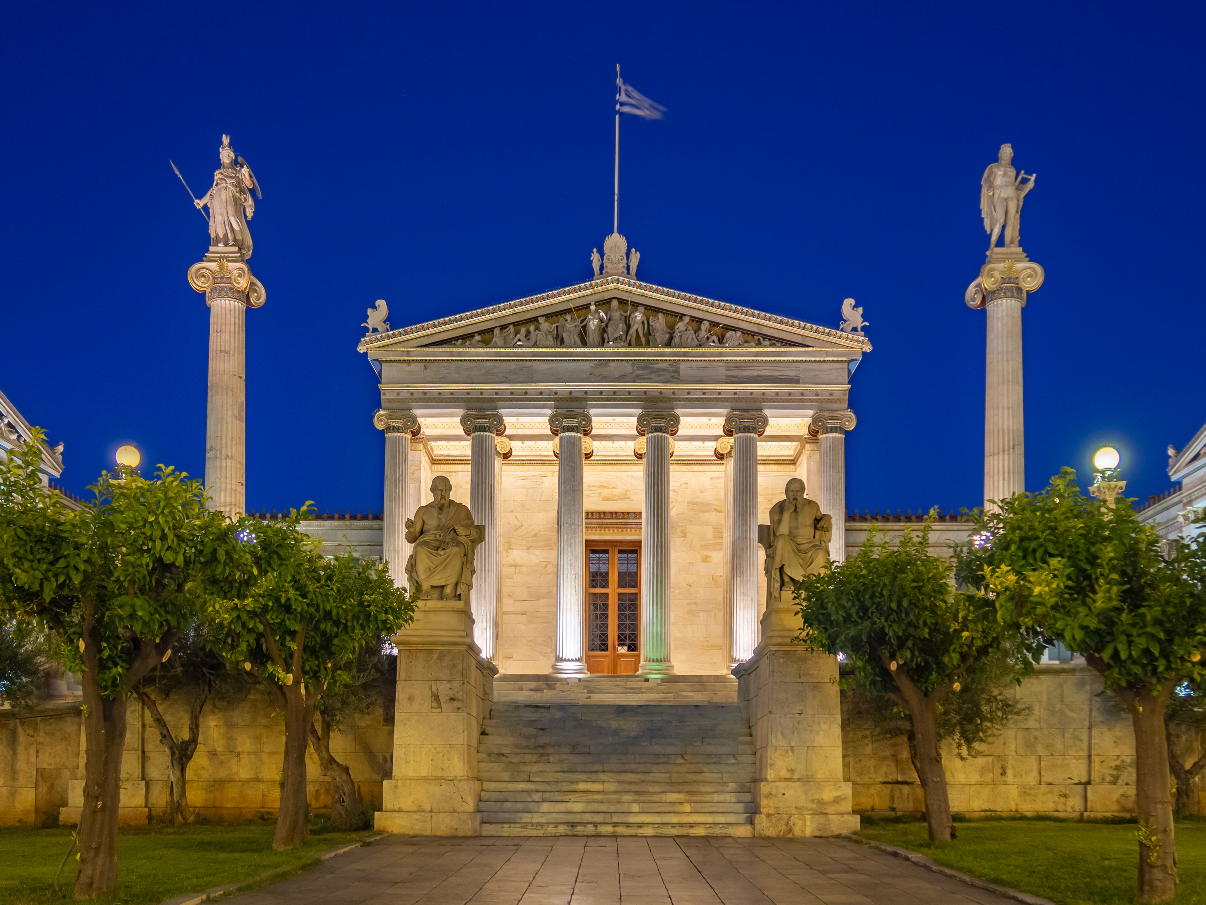 The Academy of Athens at dusk«Μέγαρο Ακαδημίας Αθηνών»